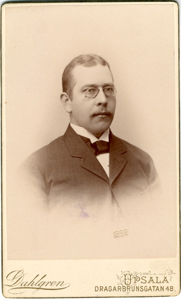 Swedish Archeologist Sam Wide in 1892.